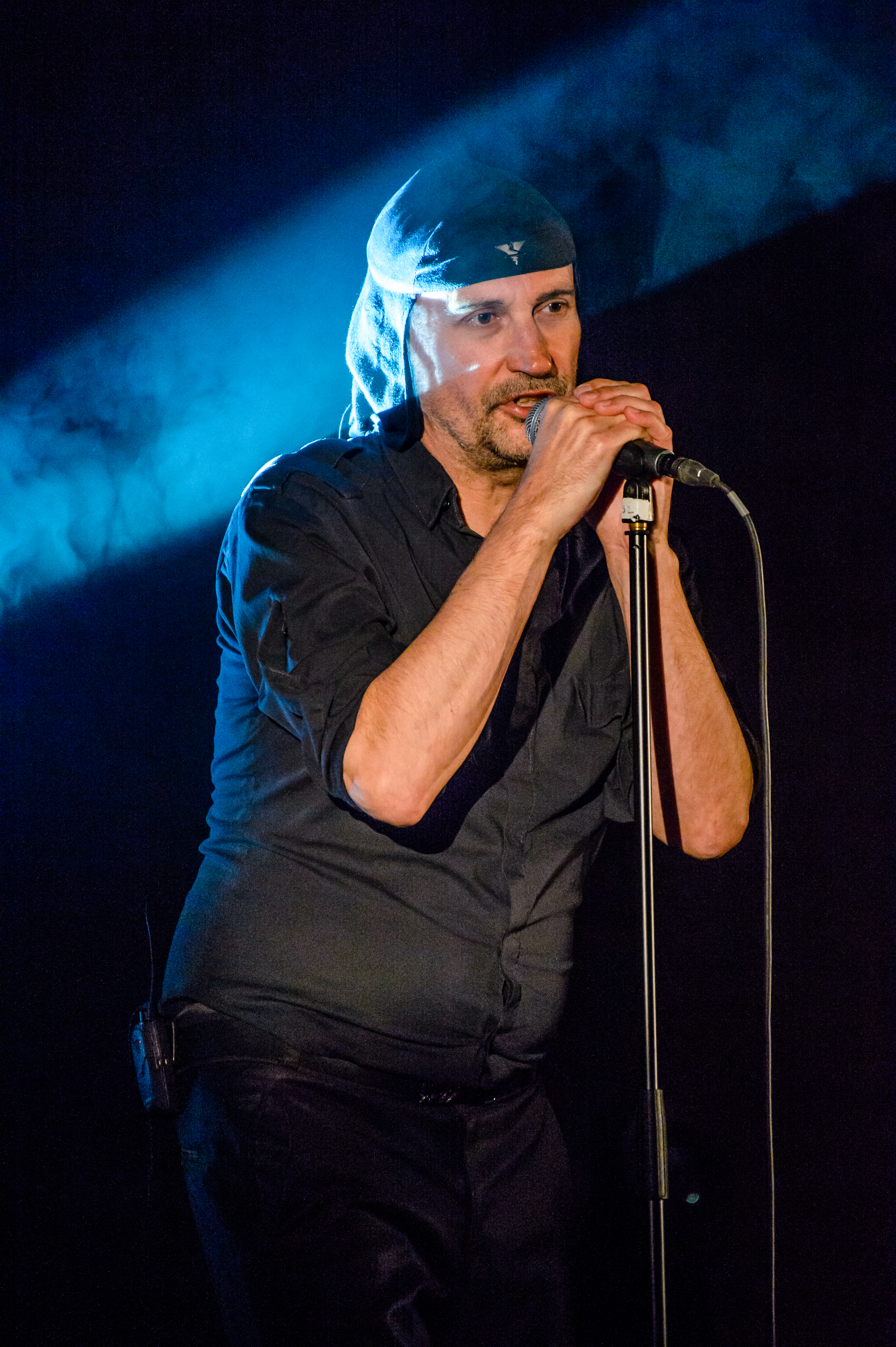 Laibach - The Sound of Music Tour; Christuskirche Bochum